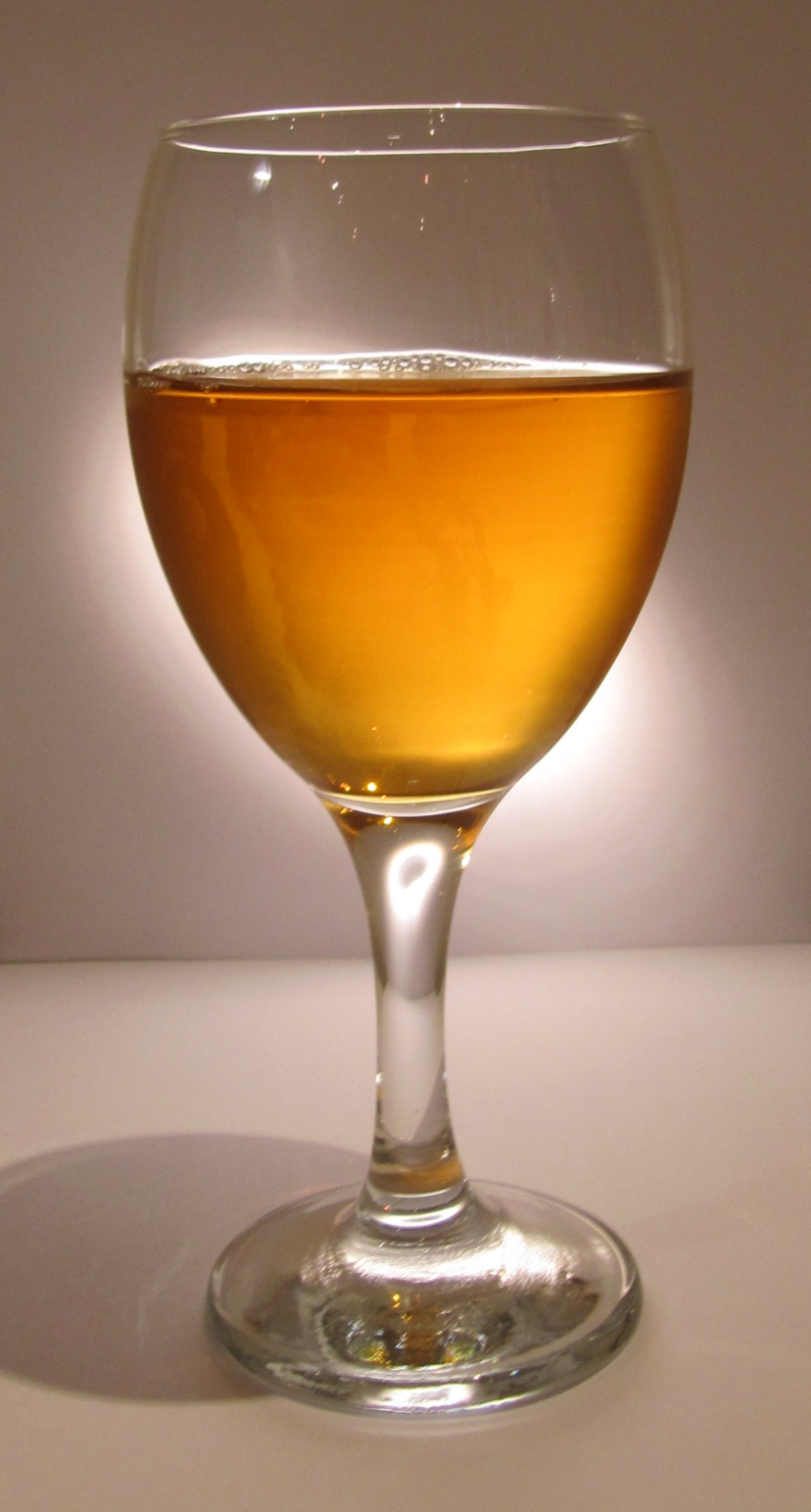 German_Ginger_wine_2